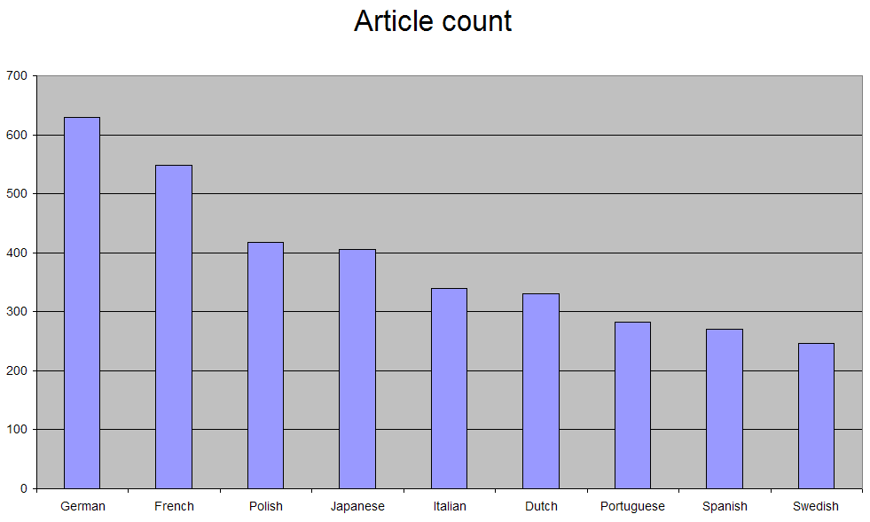 comparison of the biggest non-English Wikipedia (by article count)